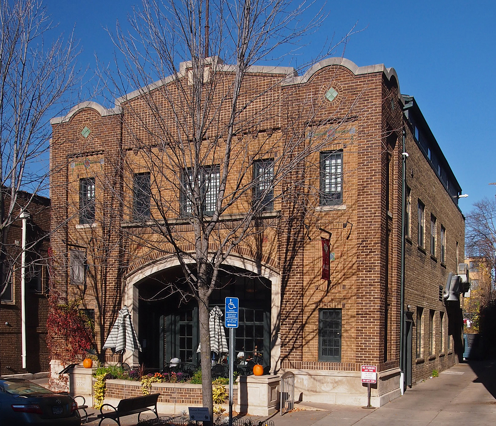 Former Minneapolis Fire Department Station 28, now the Harriet Brasserie restaurant, 2724 43rd St W, Minneapolis, Minnesota, USA. Viewed from the south.